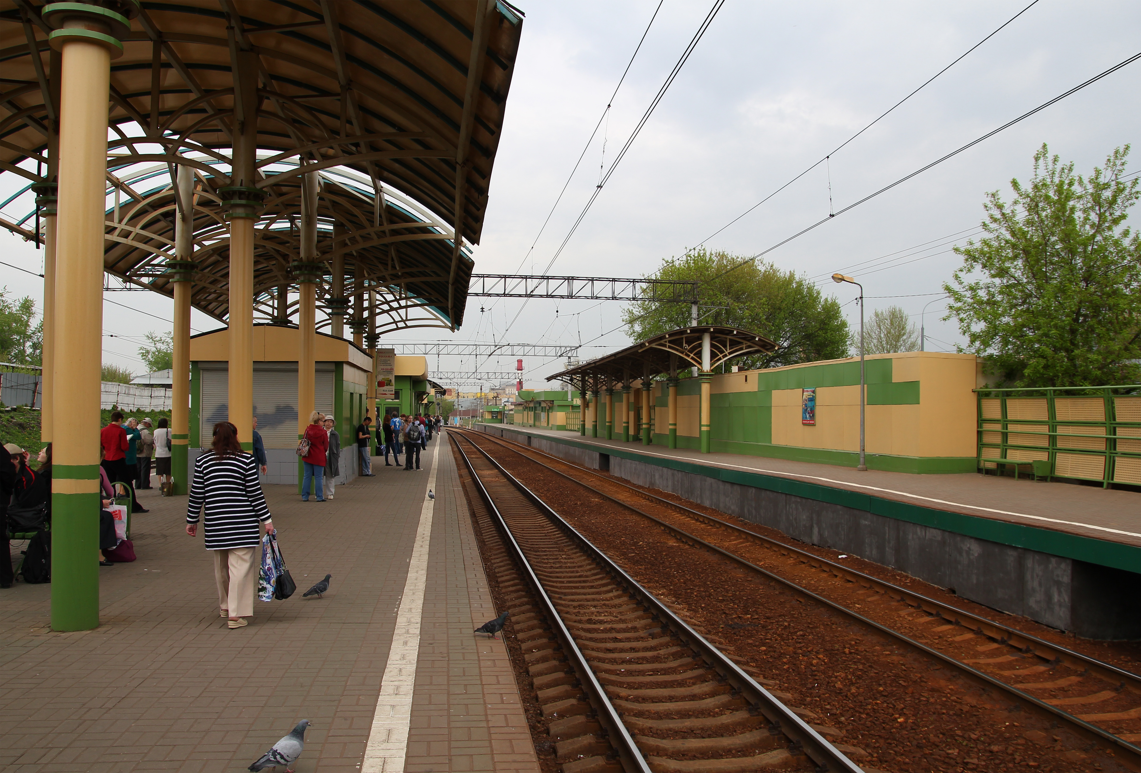 Train stop Nizhnie Kotly in Moscow